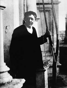 Painter_Tatlin_V